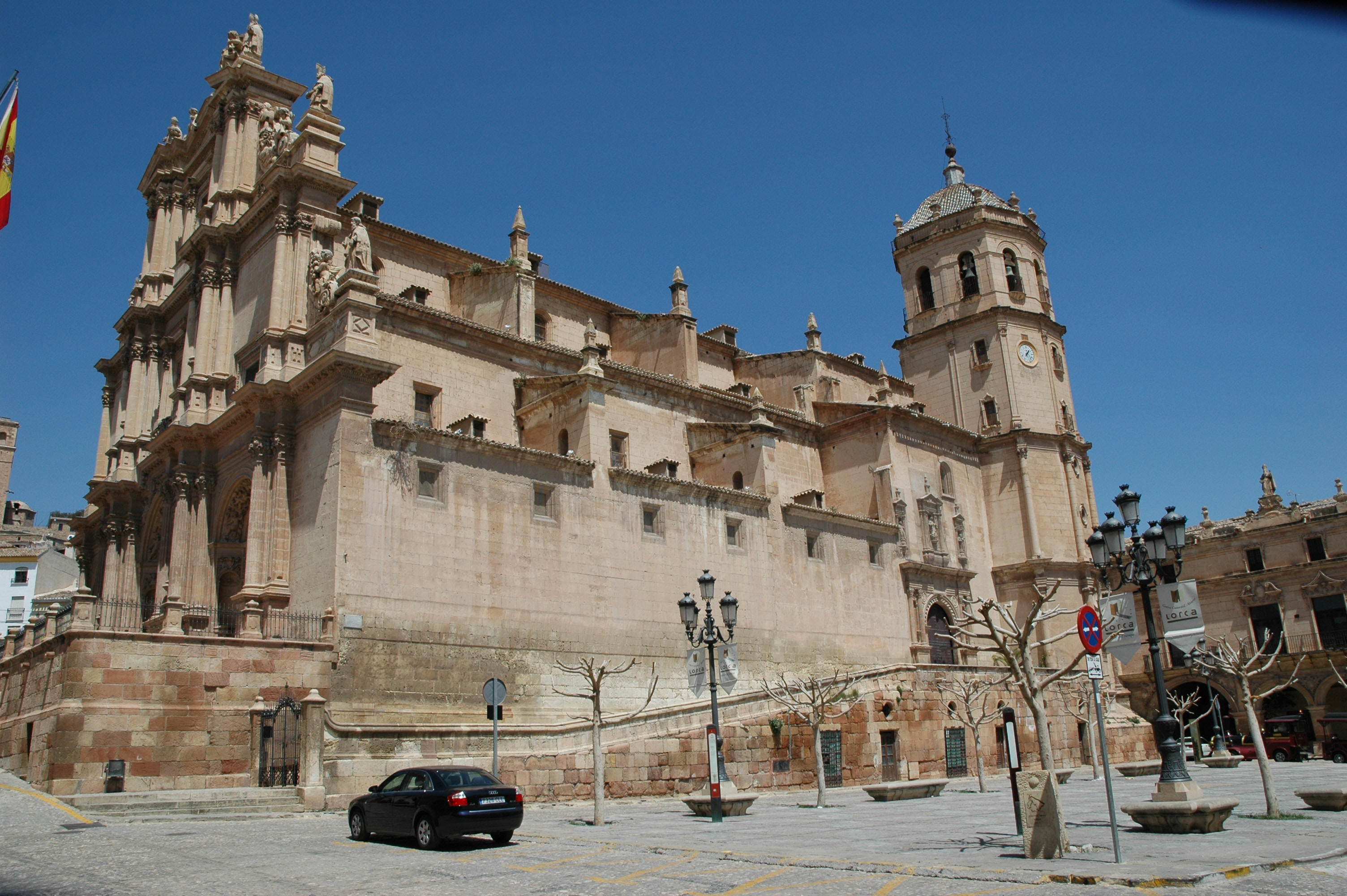 Collegiate Church of St. Patrick, Lorca (Murcia)